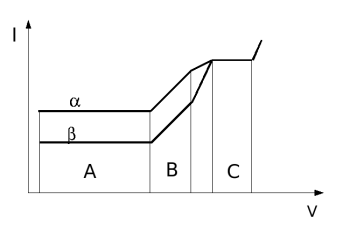 V/A properties of the Gaseous ionization detectors